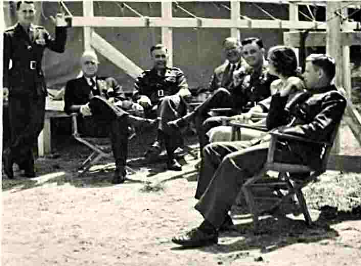 then-Captain James M. Masters, Sr. (standing), beside U.S. President Franklin Delano Roosevelt - Warm Springs, Ga. 1940